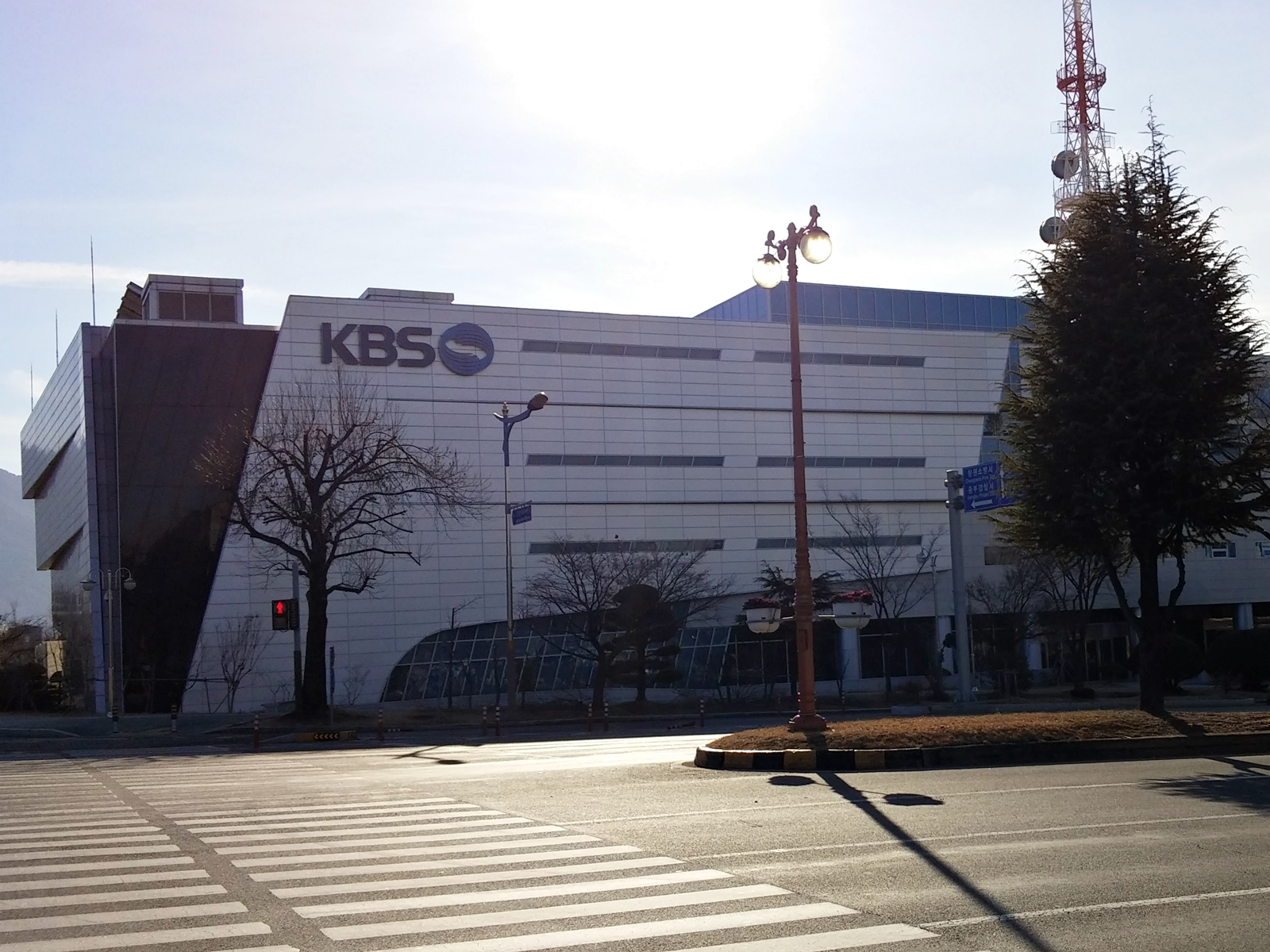 A new building of KBS Changwon. It was opened on February 19, 2013.